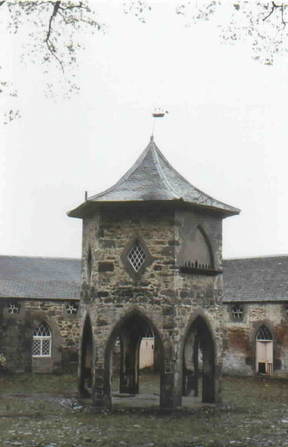 Doocot, Megginch Castle.